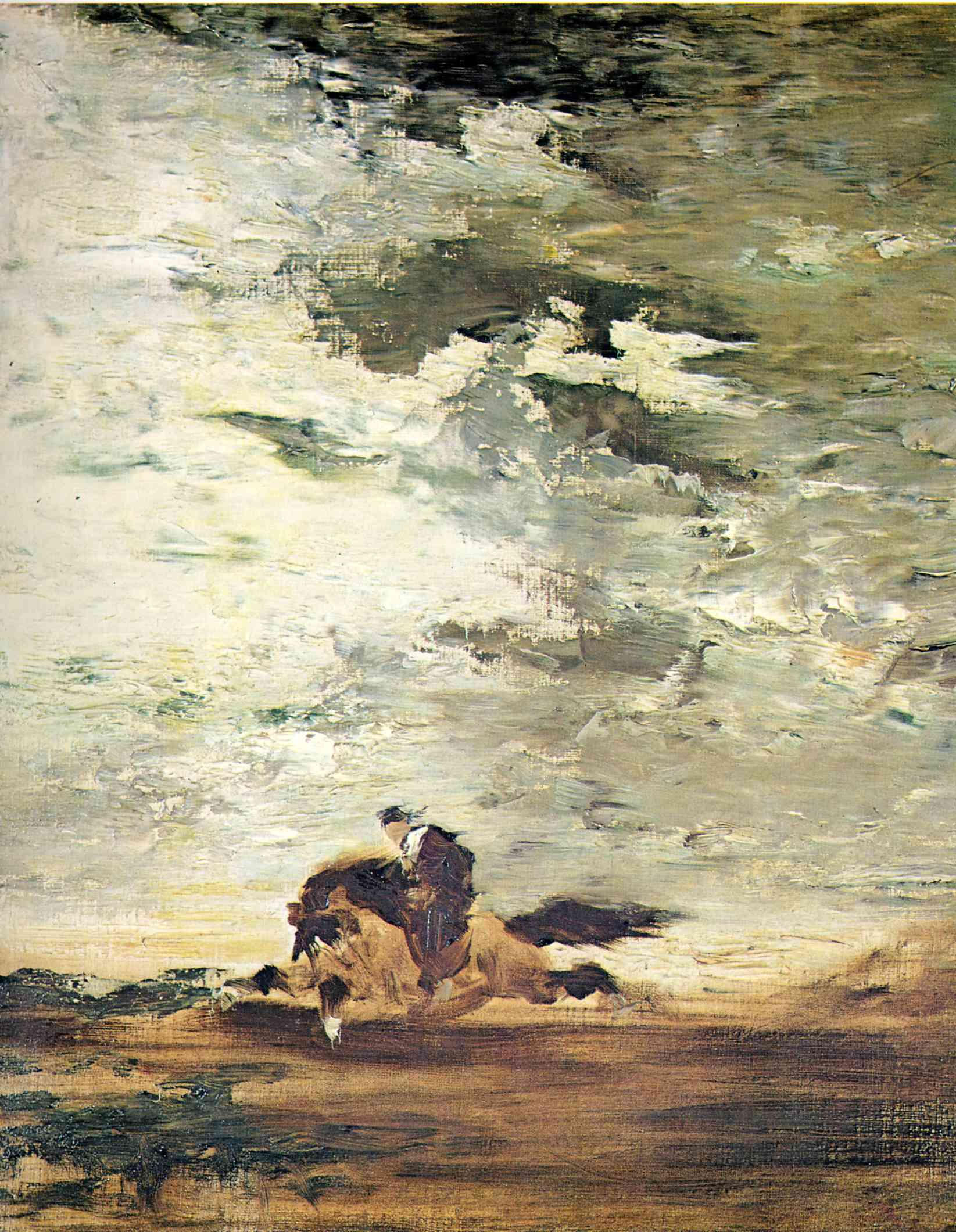 Painting by Gustave Moreau